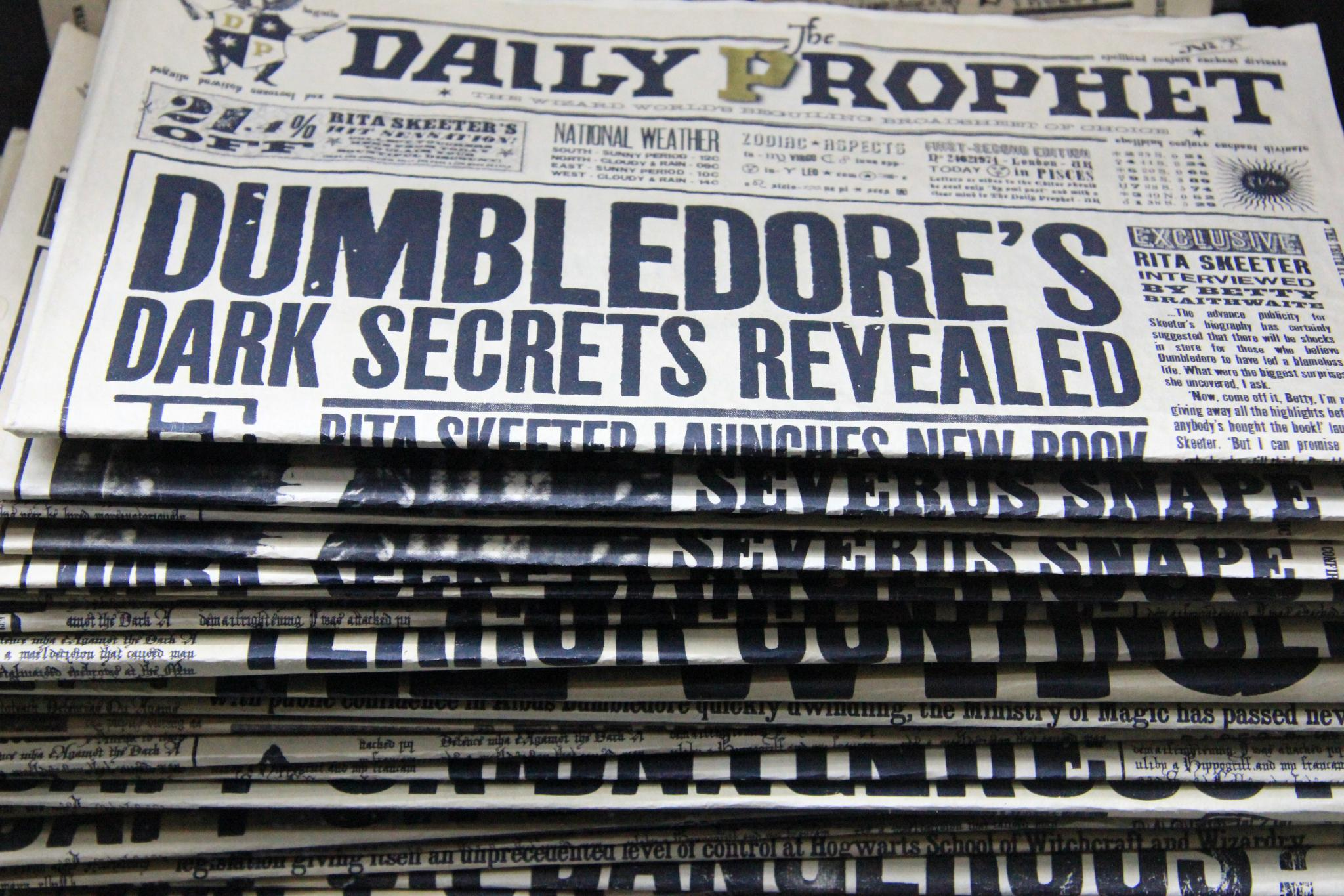 Warner Bros. Studio Tour London: The Making of Harry Potter.